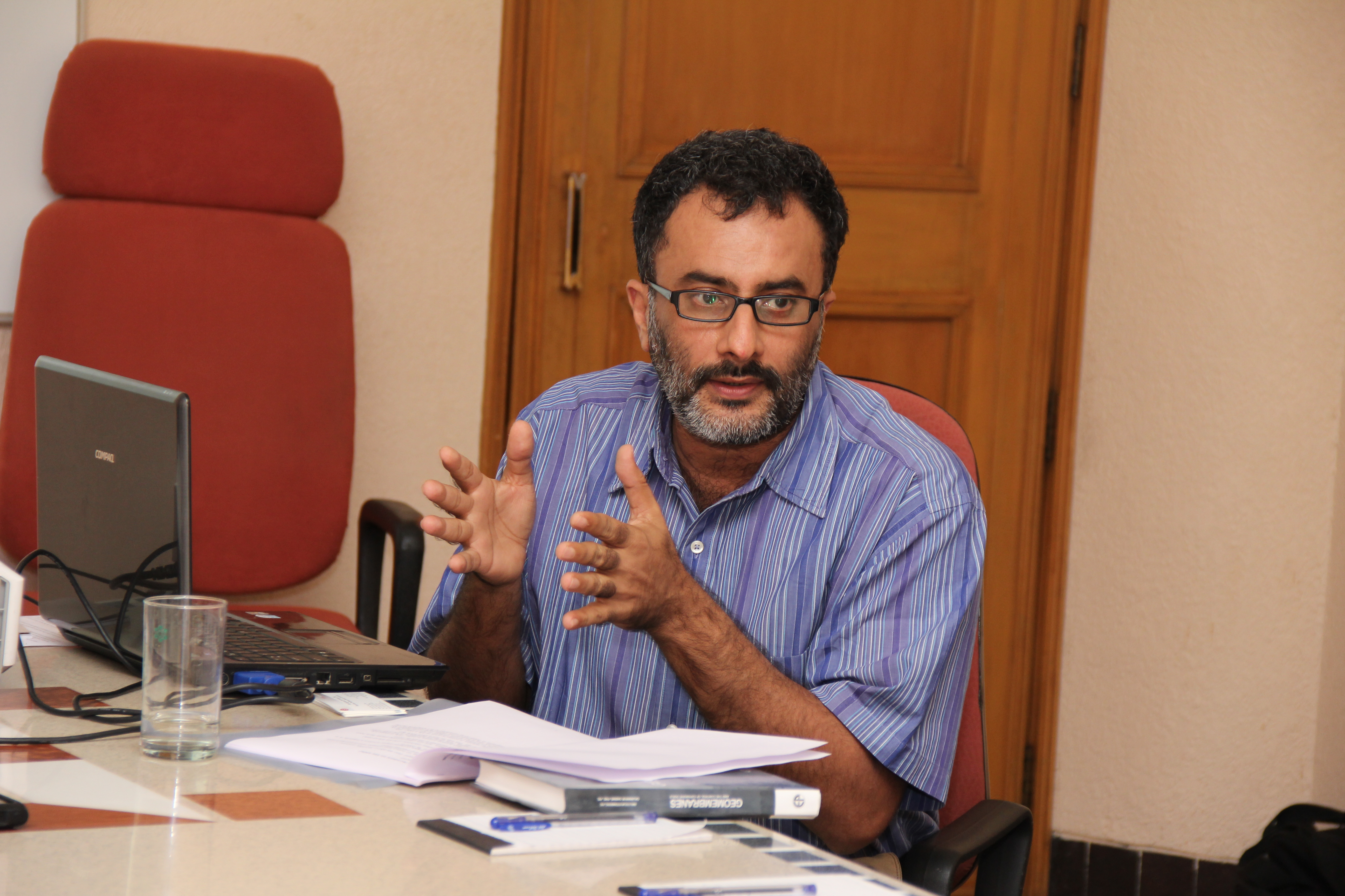 Ramu Ramanathan, Group Editor, PrintWeek India and Campaign India